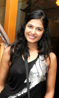 Priyanka Shah at Rohhit Verma's sister Swati's birthday bash